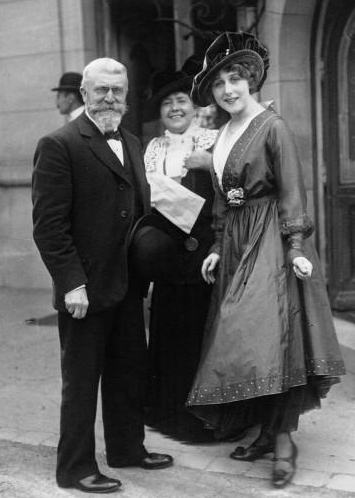 French composer Paul Vidal (1863-1931) with French actress Gabrielle Robinne (1886-1980).